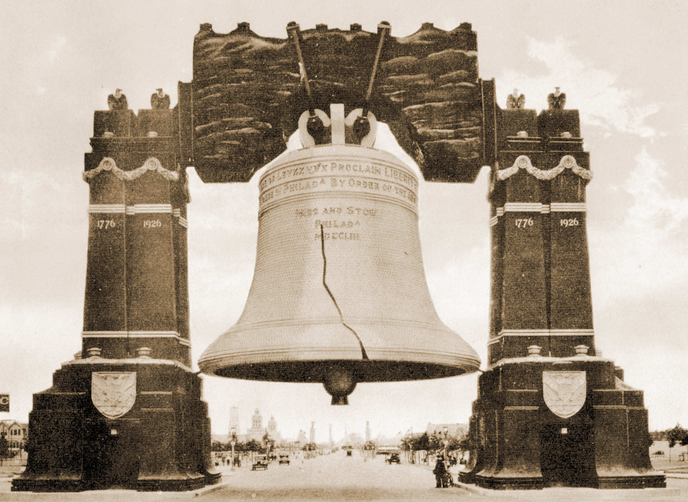 The 80-foot tall "Luminous Liberty Bell" spanning Broad Street (at Johnson St), Philadelphia, PA, built in 47 days by Frank C. English & Sons in April-May, 1926, at a cost of $100,000 for the 1926 Sesqui-Centennial International Exposition. The bell was illuminated with 26,000 15-watt light bulbs set at six-inch centers and eight 200-watt projectors in the clapper. The structure contained 80 tons of steel resting on a foundation of 30-foot wooden pilings with a concrete capping. (Austin, E.L. and Odell Hauser. "The Sesqui-Centennial International Exposition". Philadelphia: Current Publications, Inc. 1929, p. 67)